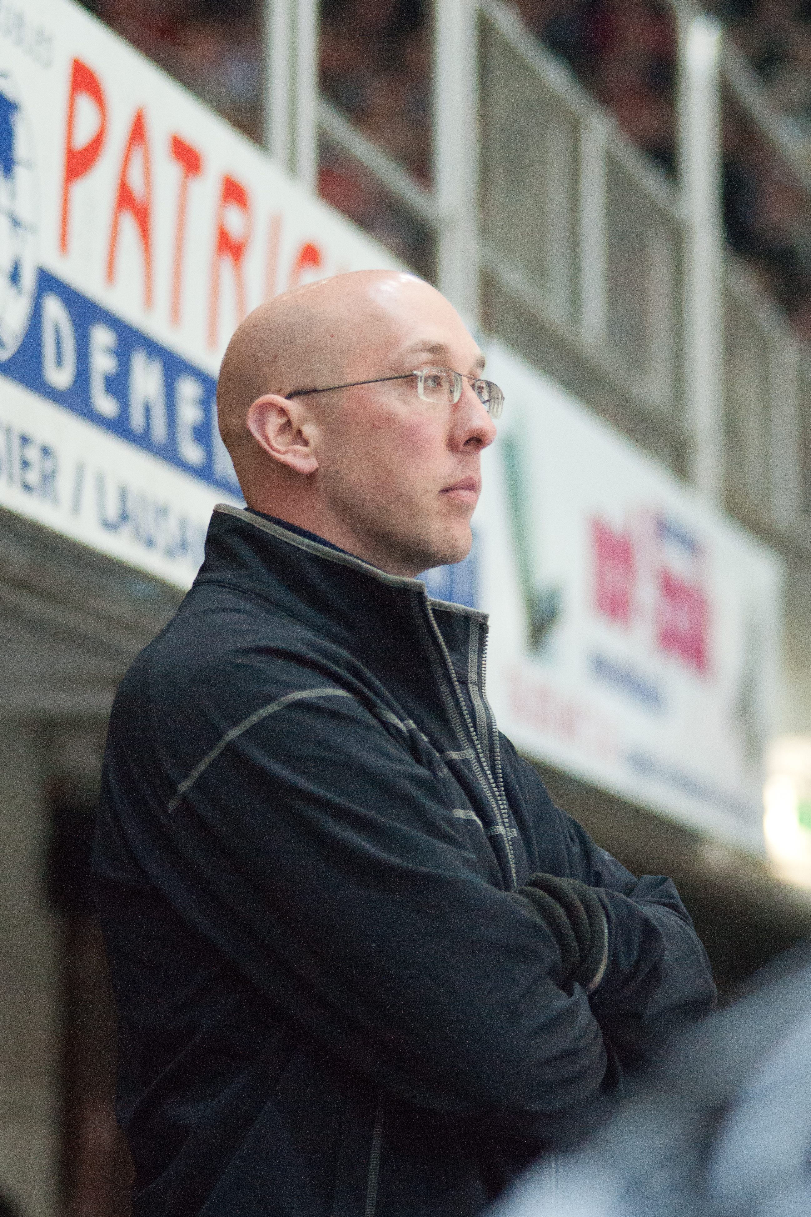 The making of this document was supported by Wikimedia CH. (Submit your project!) For all the files concerned, please see the category Supported by Wikimedia CH.